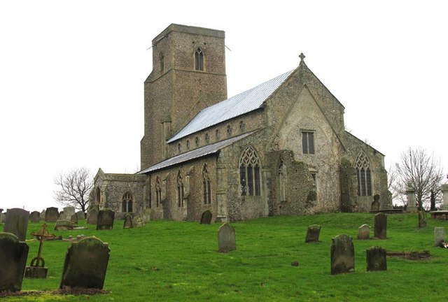 St Peter, Great Walsingham, Norfolk